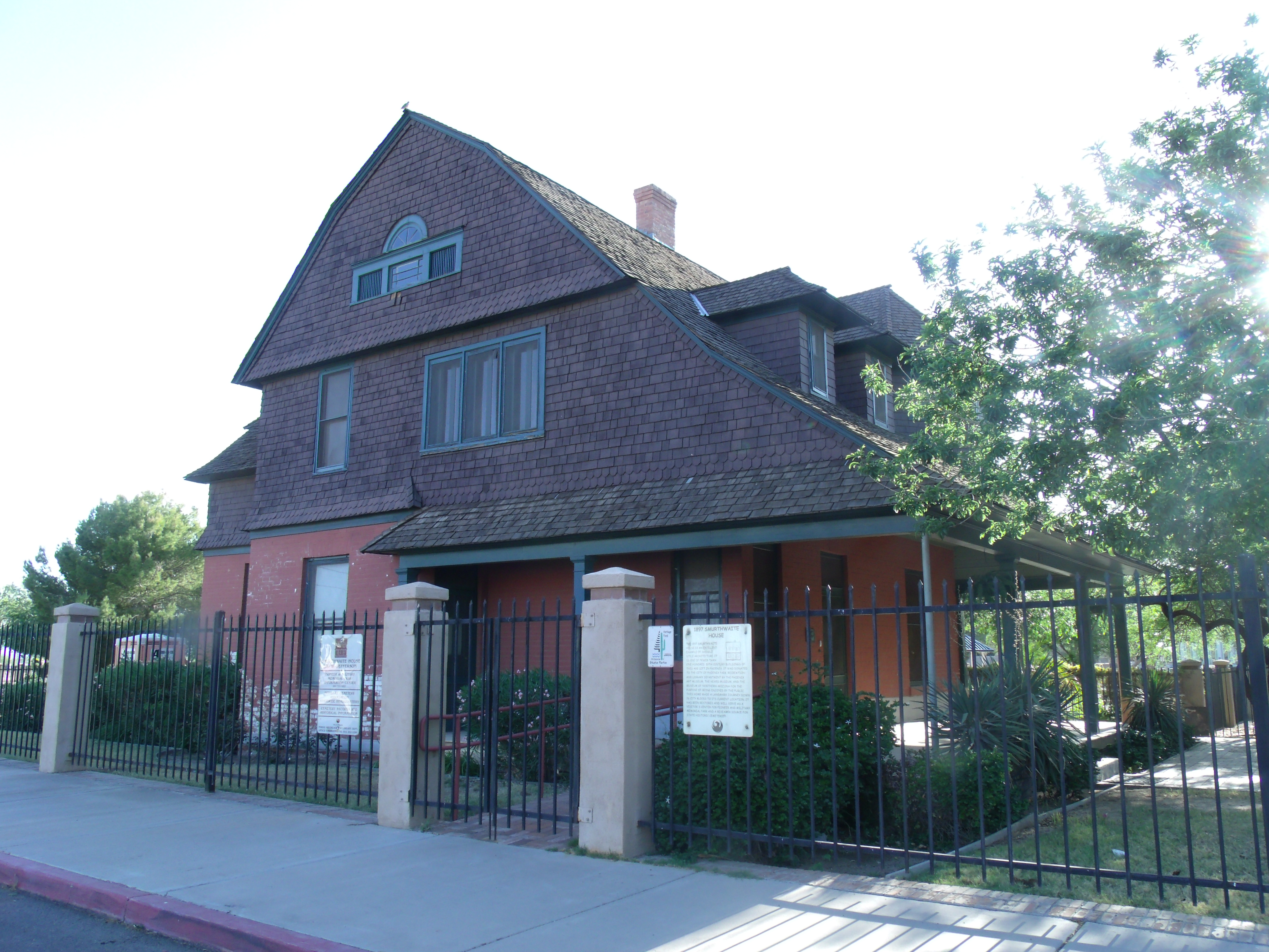 Historic (NRHP) Smurthwaite House built in 1897 in Phoenix, Arizona